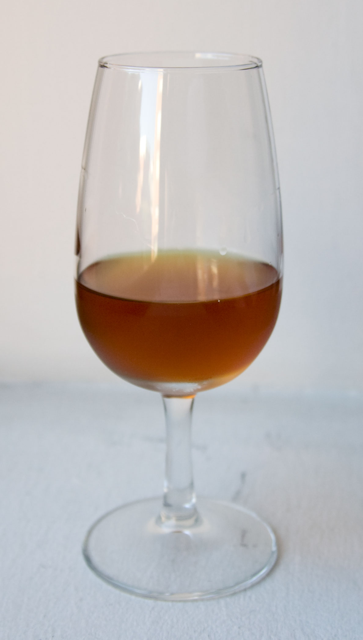 A "copita" sherry glass containing amontillado sherry